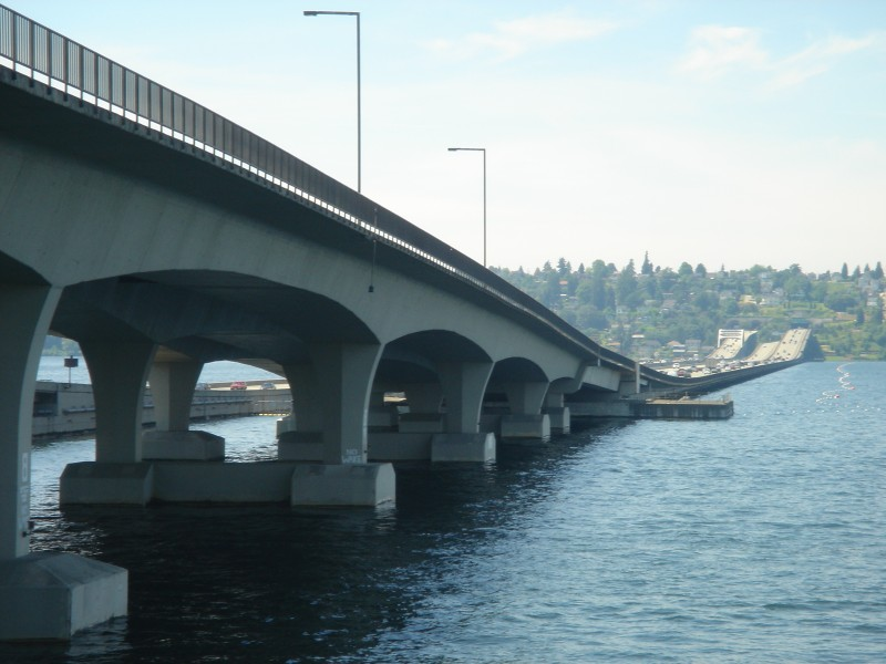 The Interstate 90 floating bridges across Lake Washington, looking west from Mercer Island toward Seattle. Foreground: Homer M. Hadley Memorial Bridge, Background: Lacey V. Murrow Memorial Bridge Photograph taken by Tradnor on May 28, en:2005.